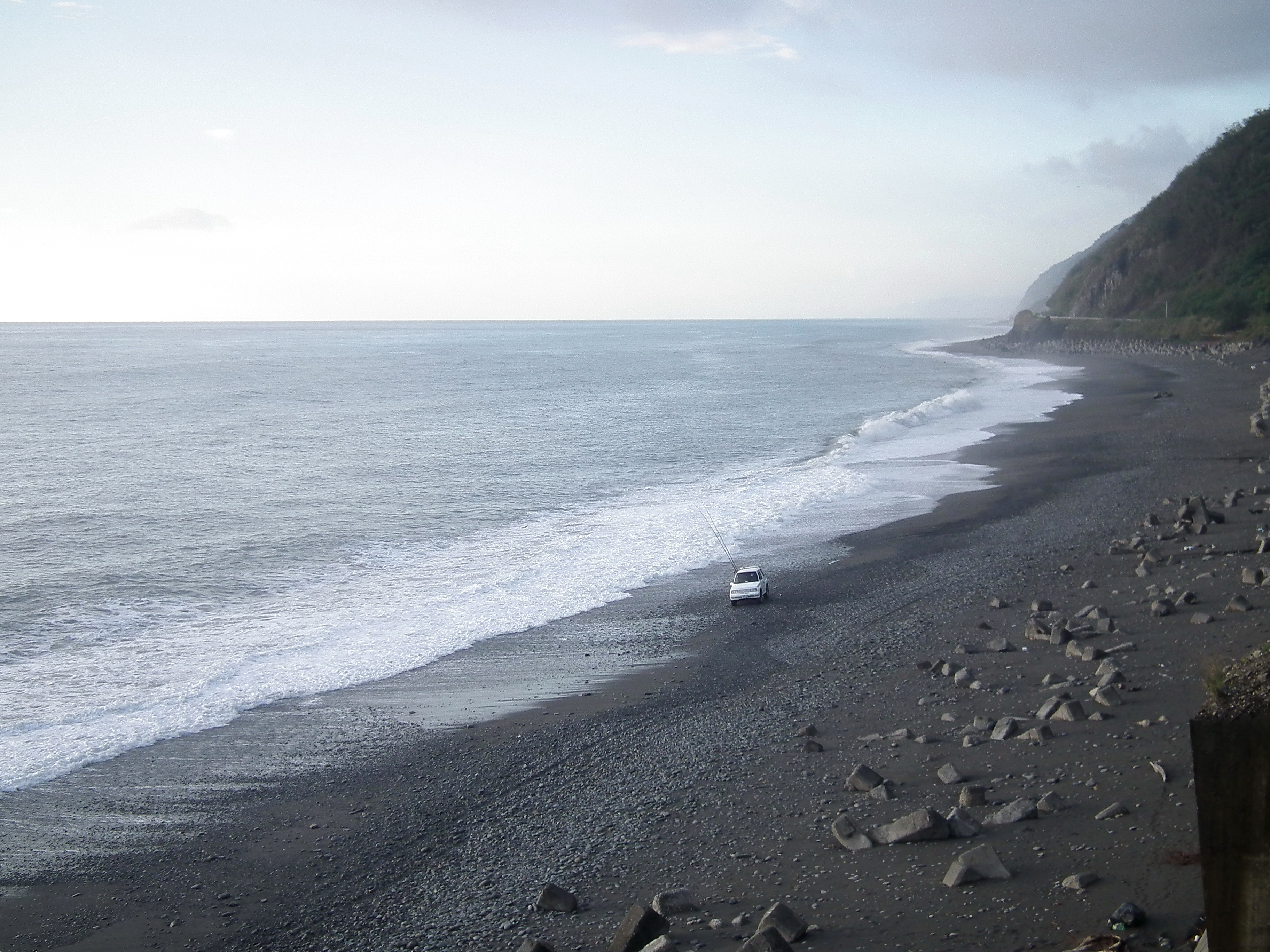 多良沙灘 Duoliang Beach